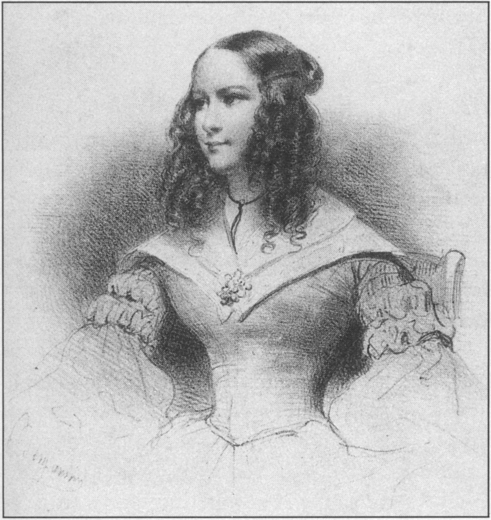 The English soprano Anna Thillon (1819–1903), "in her piquant youth"